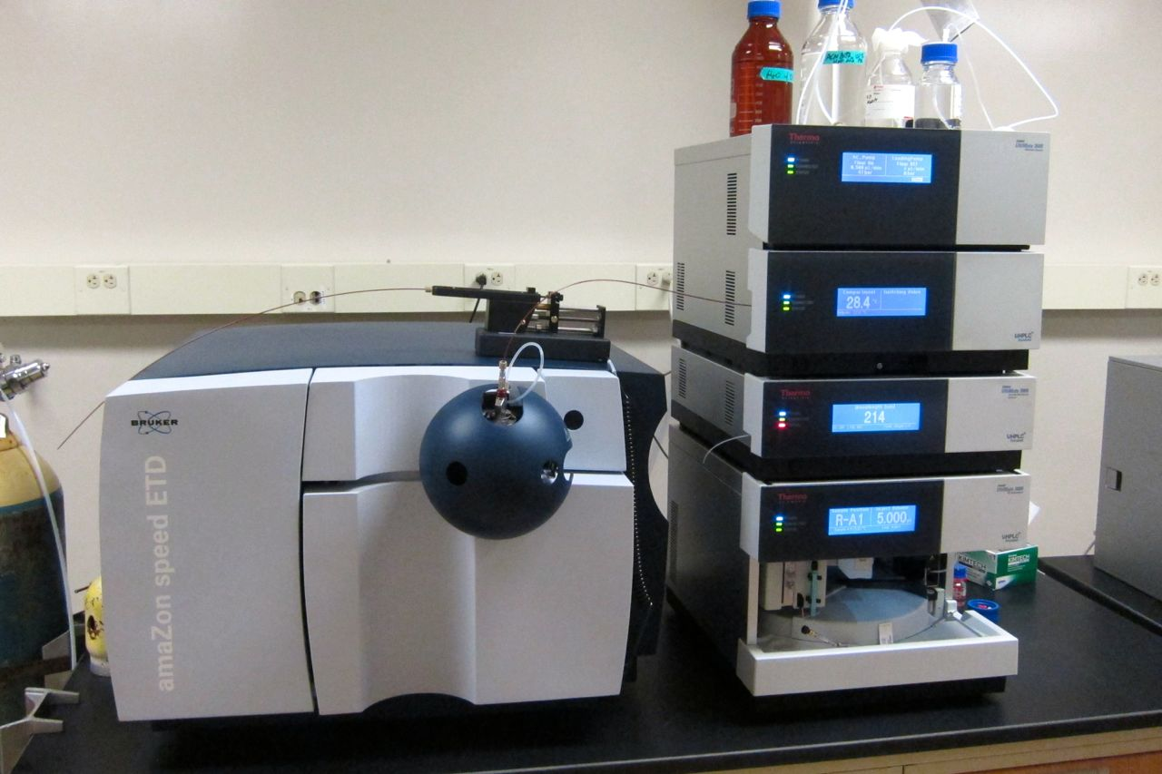 Bruker Amazon Speed ETD ion trap mass spectrometer (left) and Dionex Ultimate 3000 high performance liquid chromatography system (right), comprising a LC MS/MS system.